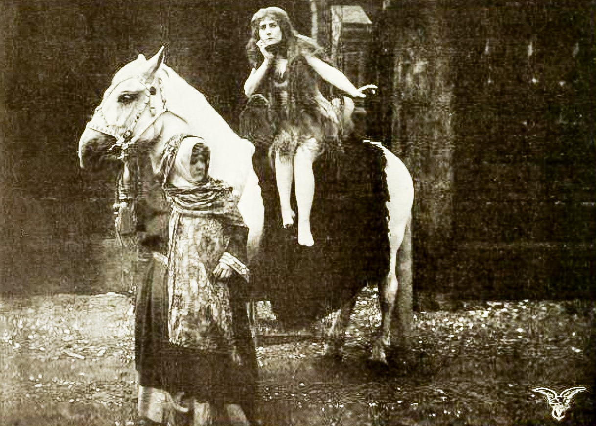 Film still from Vitagraph 1911 production Lady Godiva, starring Julia Swayne Gordon in title role; published in The Moving Picture World, October 21, 1911, p. 214; image depicts Godiva with flowing long hair riding on a white horse as the noblewoman's attendant (portrayed by Kate Price) is holding the animal's halter; original caption reads "Scene from 'Lady Godiva,' by the Vitagraph Company of America"; Vitagraph Company logo at bottom right.